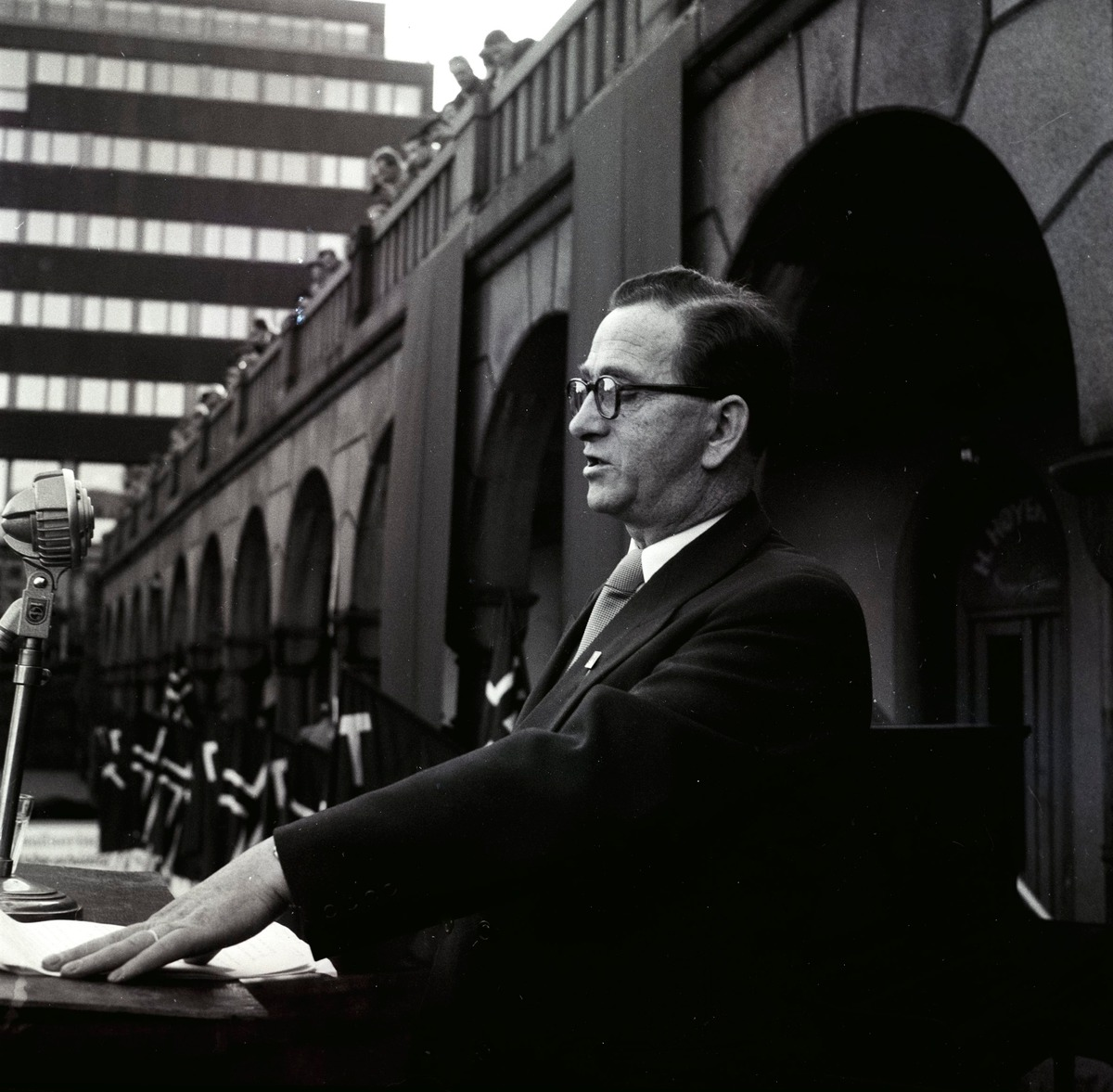 Norwegian labour union representative (vice president) Parelius Mentsen speaks on May 1, 1955.